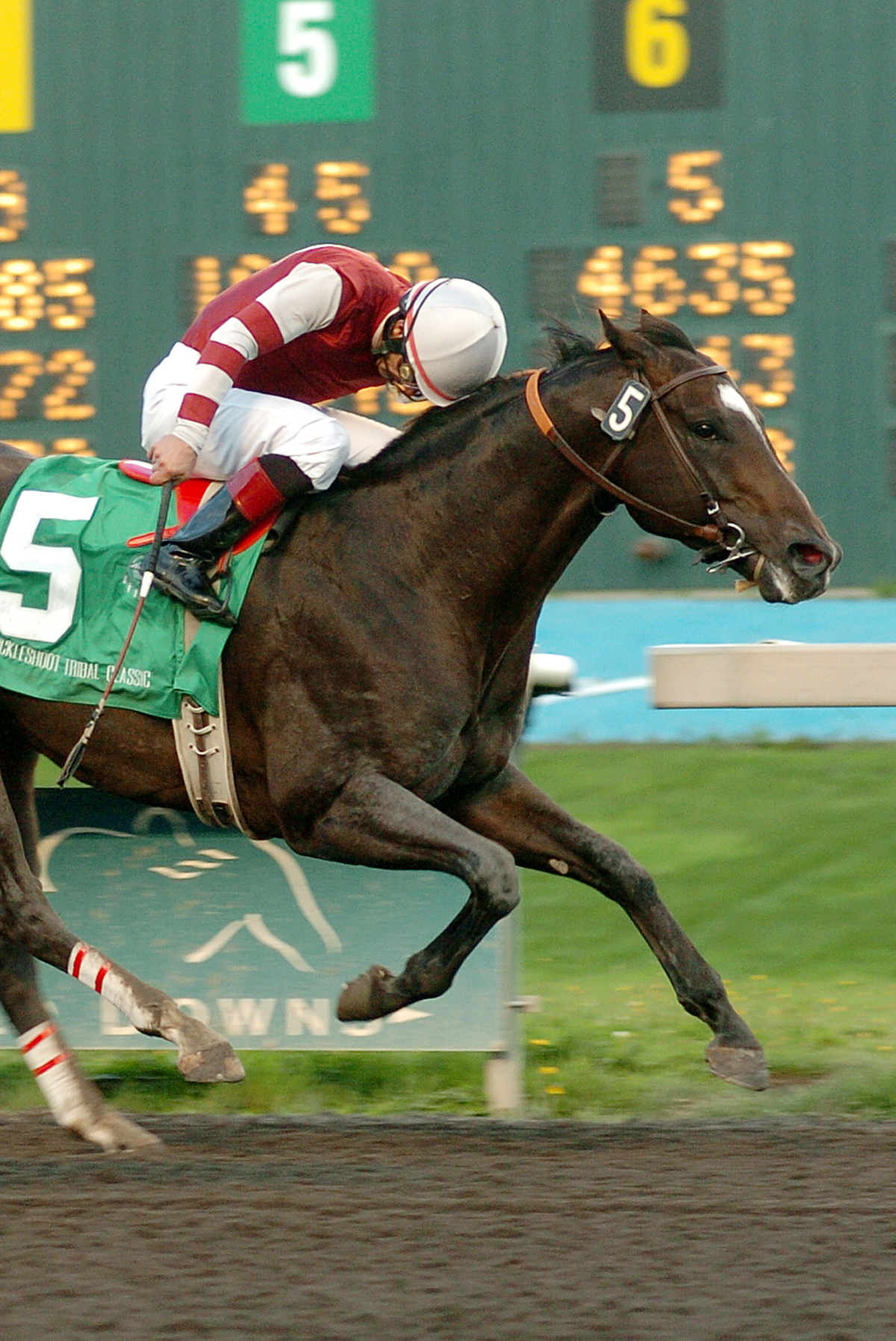 Demon Warlock wins the 2004 Tribal Classic Stakes at Emerald Downs. He currently is a sire in Yakima, Washington.